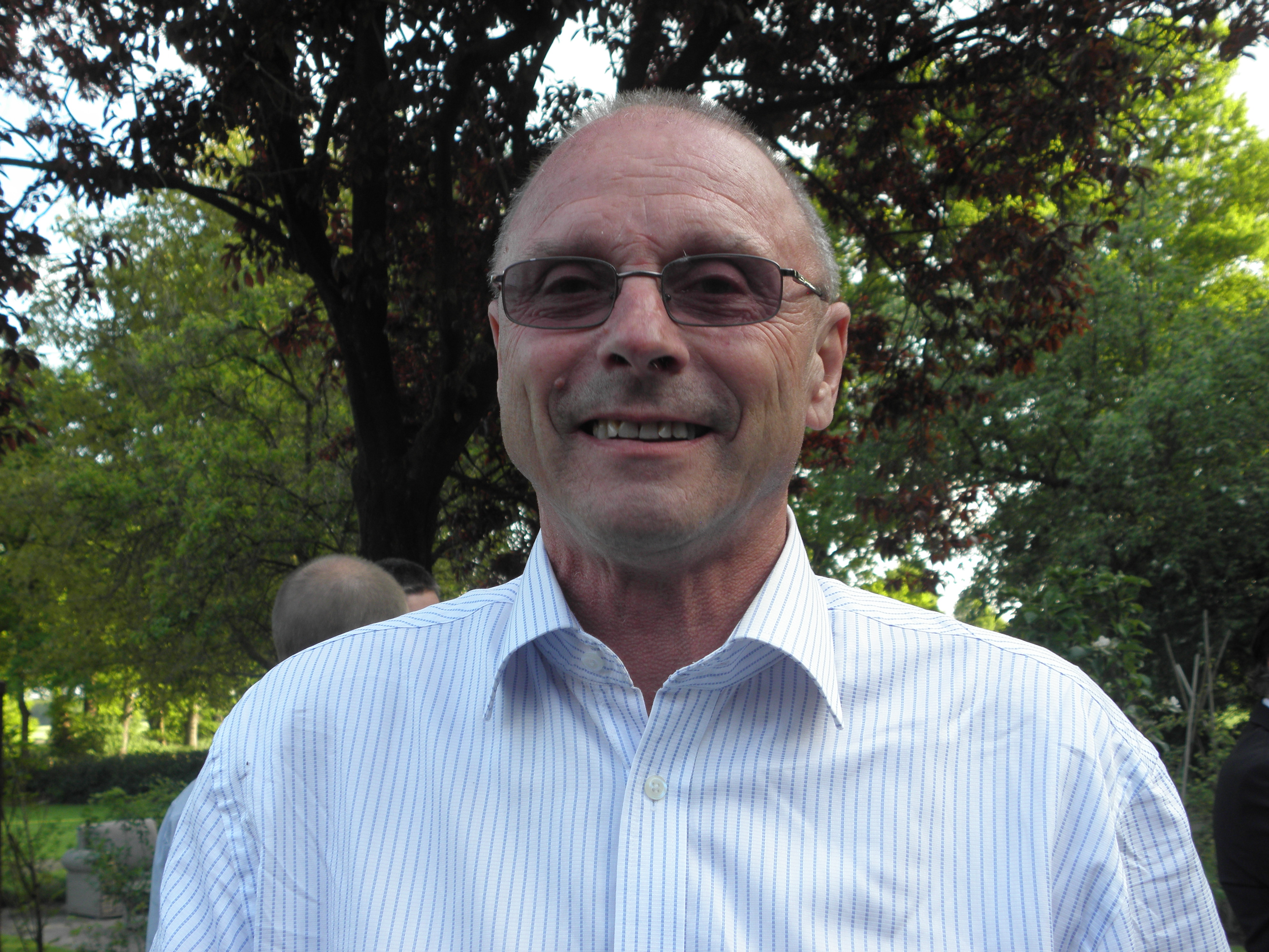 John O'Sullivan, 29 May, 2013, near Hoogeveen, The Netherlands on the occasion of the colloquium "Reinventing Radio Astronomy" in honour of Arnold van Ardenne.